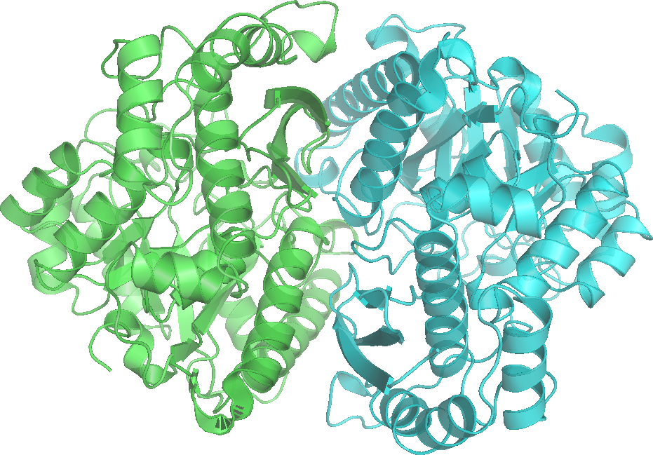 By Richard Wheeler (Zephyris) 2006. For the metabolic pathways wikiproject.